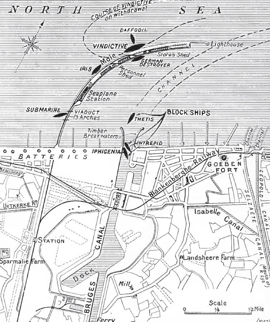 Diagram of the blocking of Zeebrugge 1918